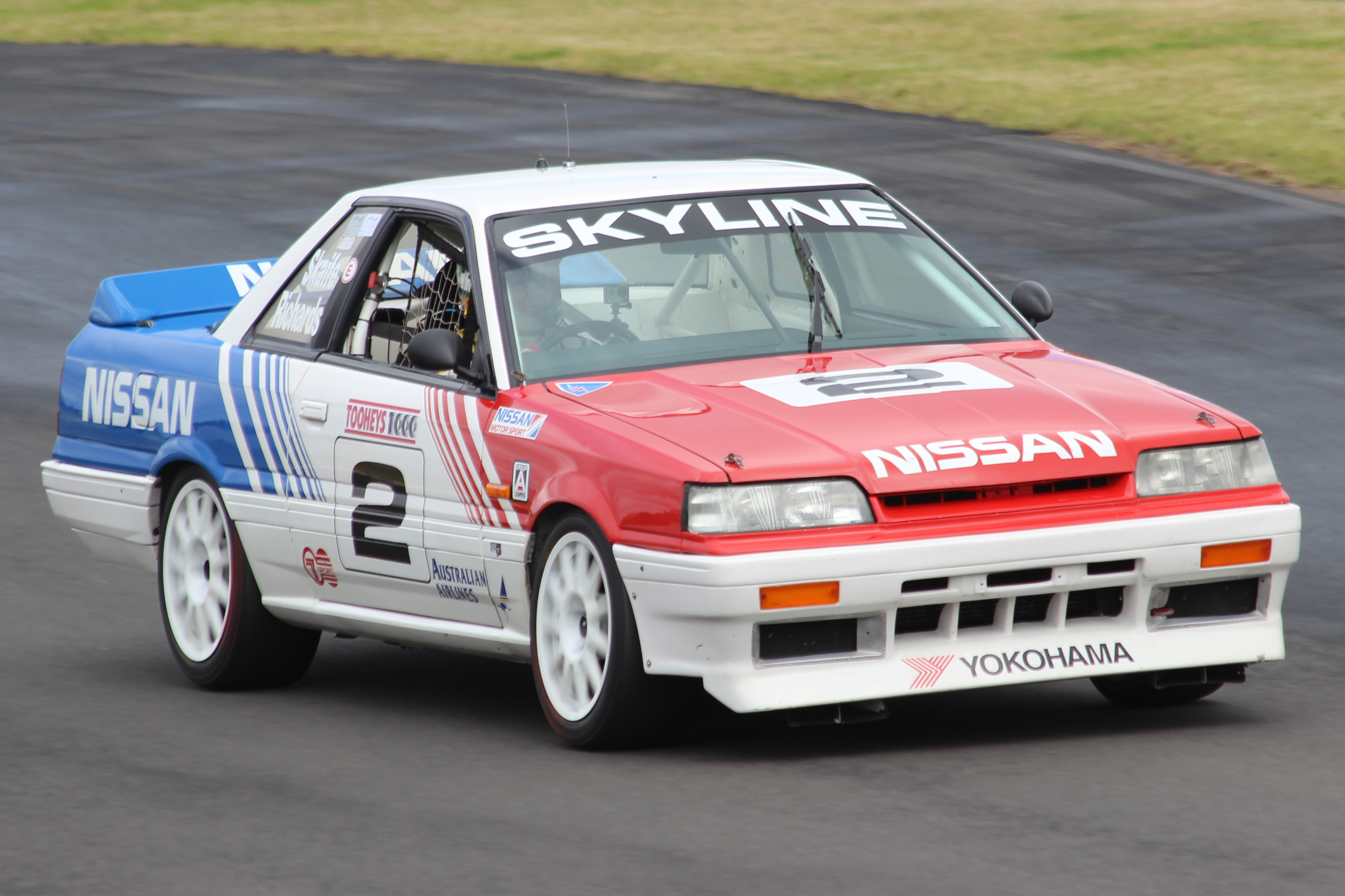 The Nissan Skyline HR31 GTS-R which Jim Richards drove in six rounds of the 1990 Australian Touring Car Championship, pictured at the 2014 Muscle Car Masters.